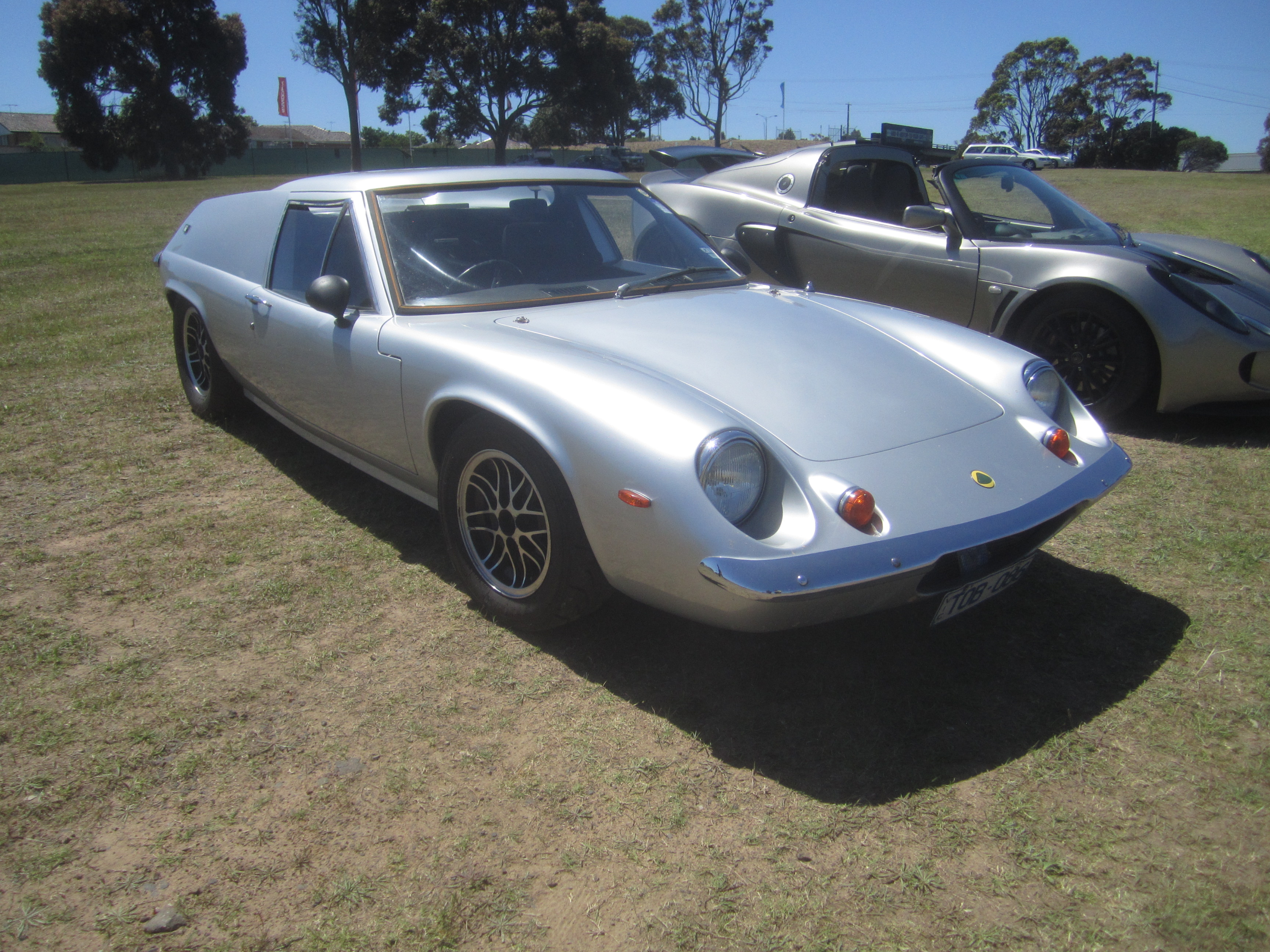 The Europa was a mid engine coupe built from 1966-75. Aside from the doors, bonnet, and boot, the body was moulded as a single unit of fibreglass. The S1 was fitted with a modified Renault 16 1470 cc inline-four engine and a 4-speed gearbox, only 296 were made. It wasnt until 1971 that the 1558cc Lotus-Ford Twin Cam engine was used. This is a post-1968 Europa S2, with the new taller nose and with external doorhandles.